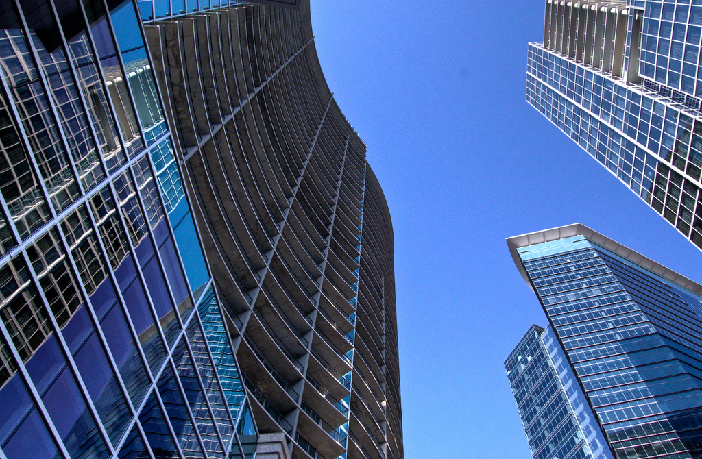 Peachtree and 11th in Midtown Atlanta